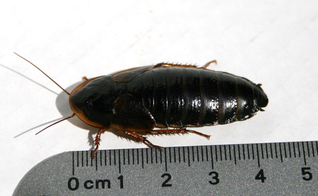 Blaptica dubia female cockroach near ruler for scale